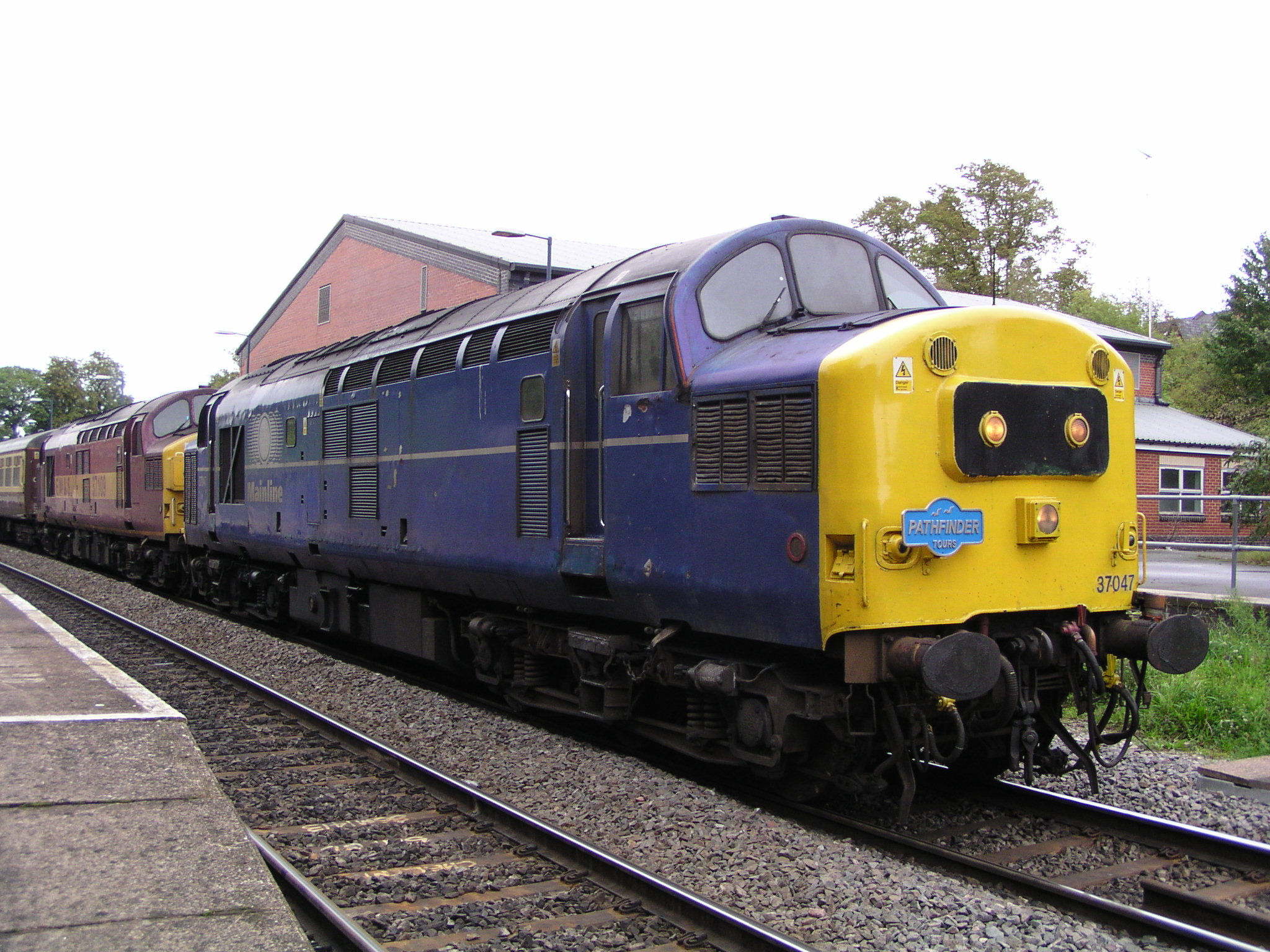 BR Class 37/0 nos. 37047 and 37109 at Cheltenham Spa on 18th September 2004, whilst working a railtour. Both locomotives are owned by EWS. The first is painted in obsolete Mainline Freight blue, whilst the second is in EW&S red/gold livery.